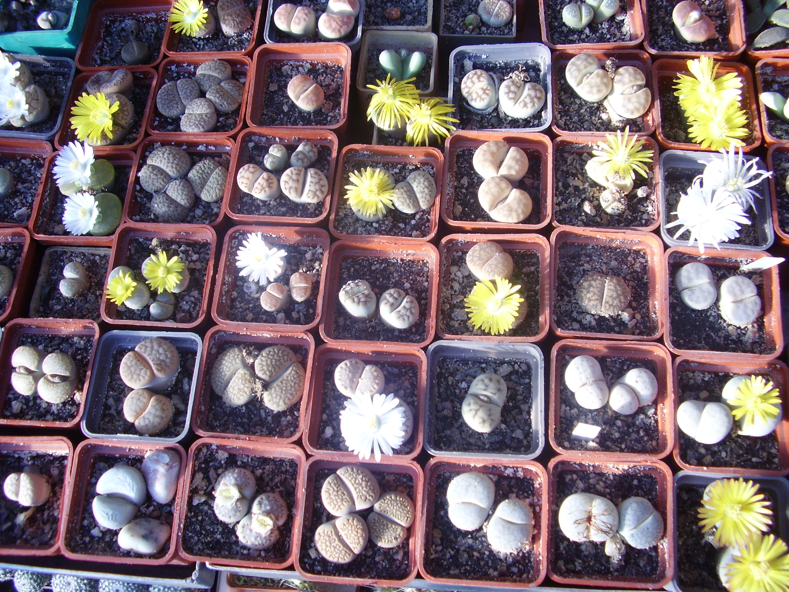 Lithops from collection of Yuriy Shostak, Mykolaiv, Ukraine